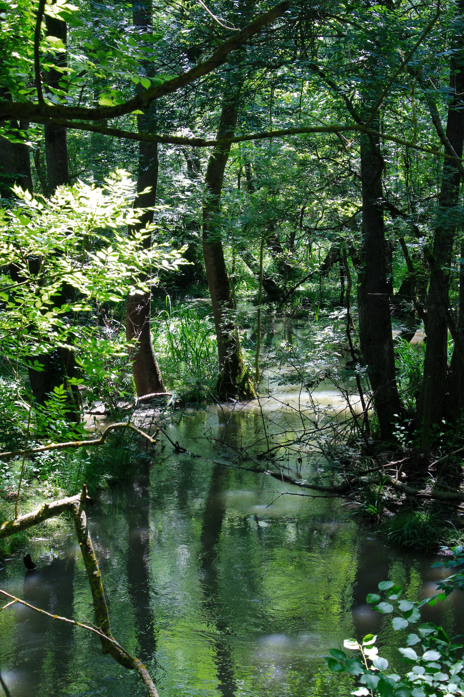 Baltata Reserve, Bulgaria